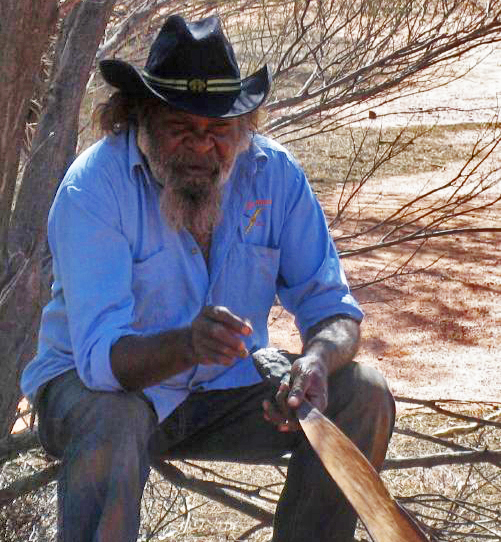 An anangu tour leader at Uluru, doing a public demonstration.